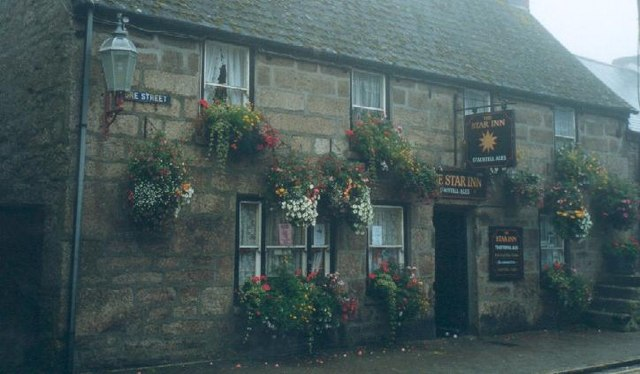 The Star Inn, St Just (1995)